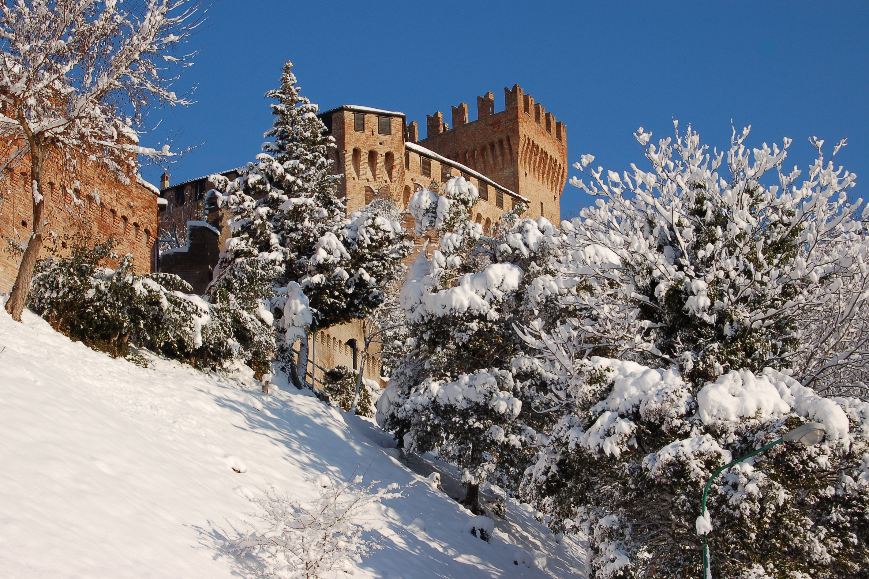 Gradara castle under the snow